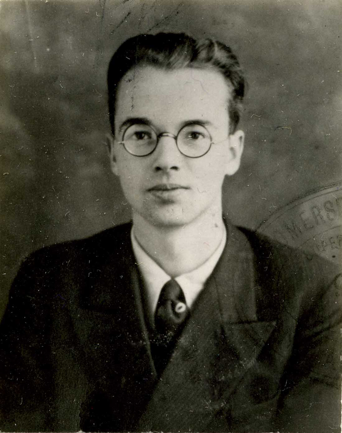 Police photograph of Physicist Klaus Fuchs. In 1933 Fuchs fled Germany for Britain. During the War he worked on the Manhattan Project in the United States to build the Atomic Bomb and later worked on British nuclear projects. In 1950 he admitted spying for the Russians since 1942 and passing on details of British and American nuclear technology.